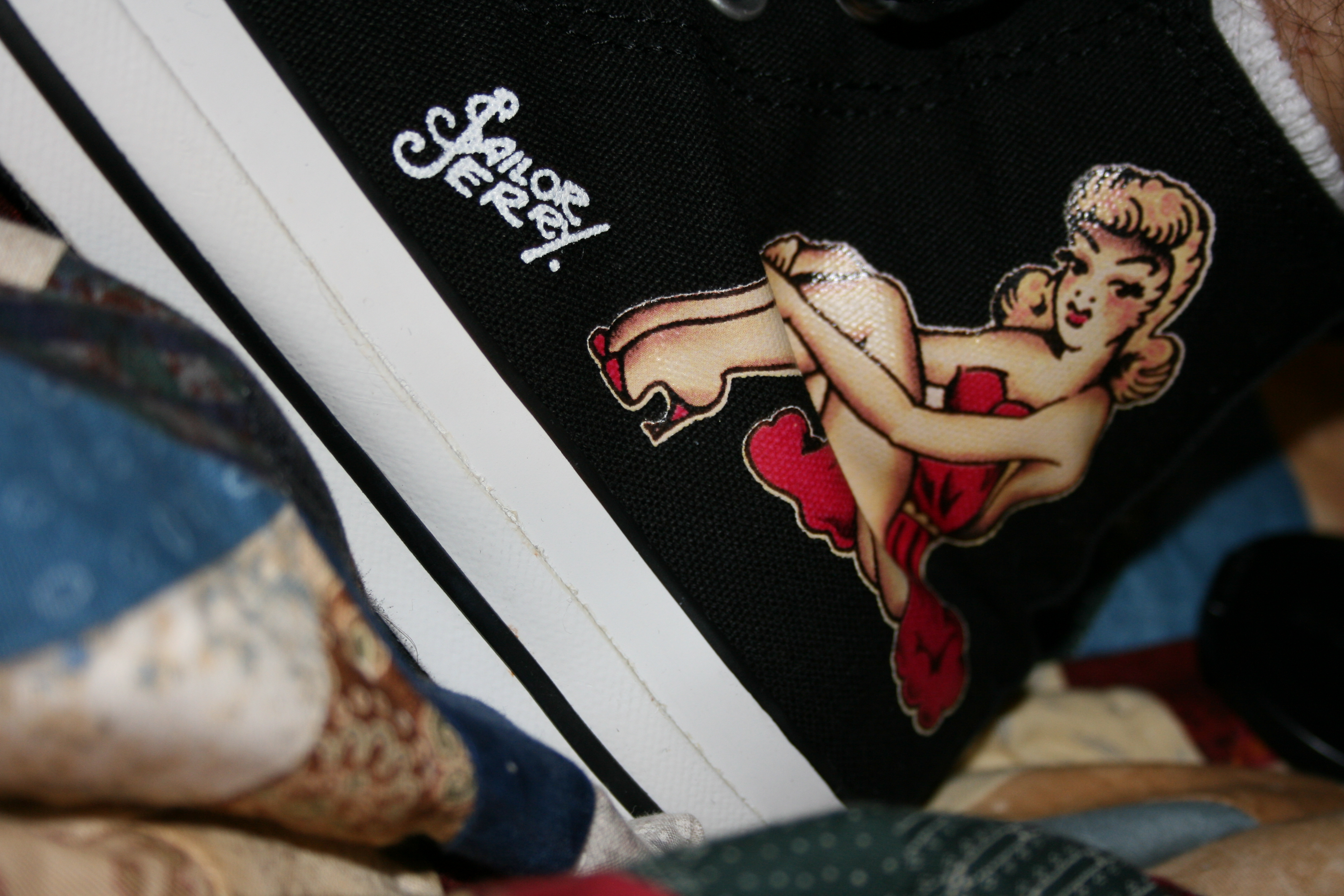 One of the Sailor Jerry edition Converse. This edition was a collection of pin up tattoos put onto converse.